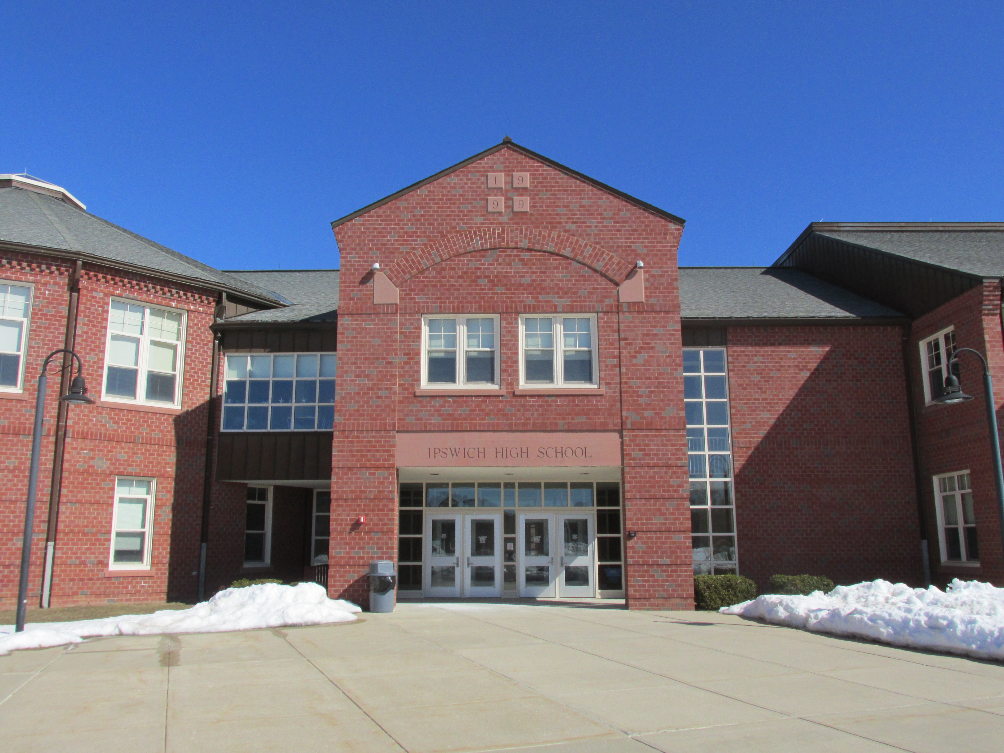 Ipswich High School, Ipswich Massachusetts - 2014